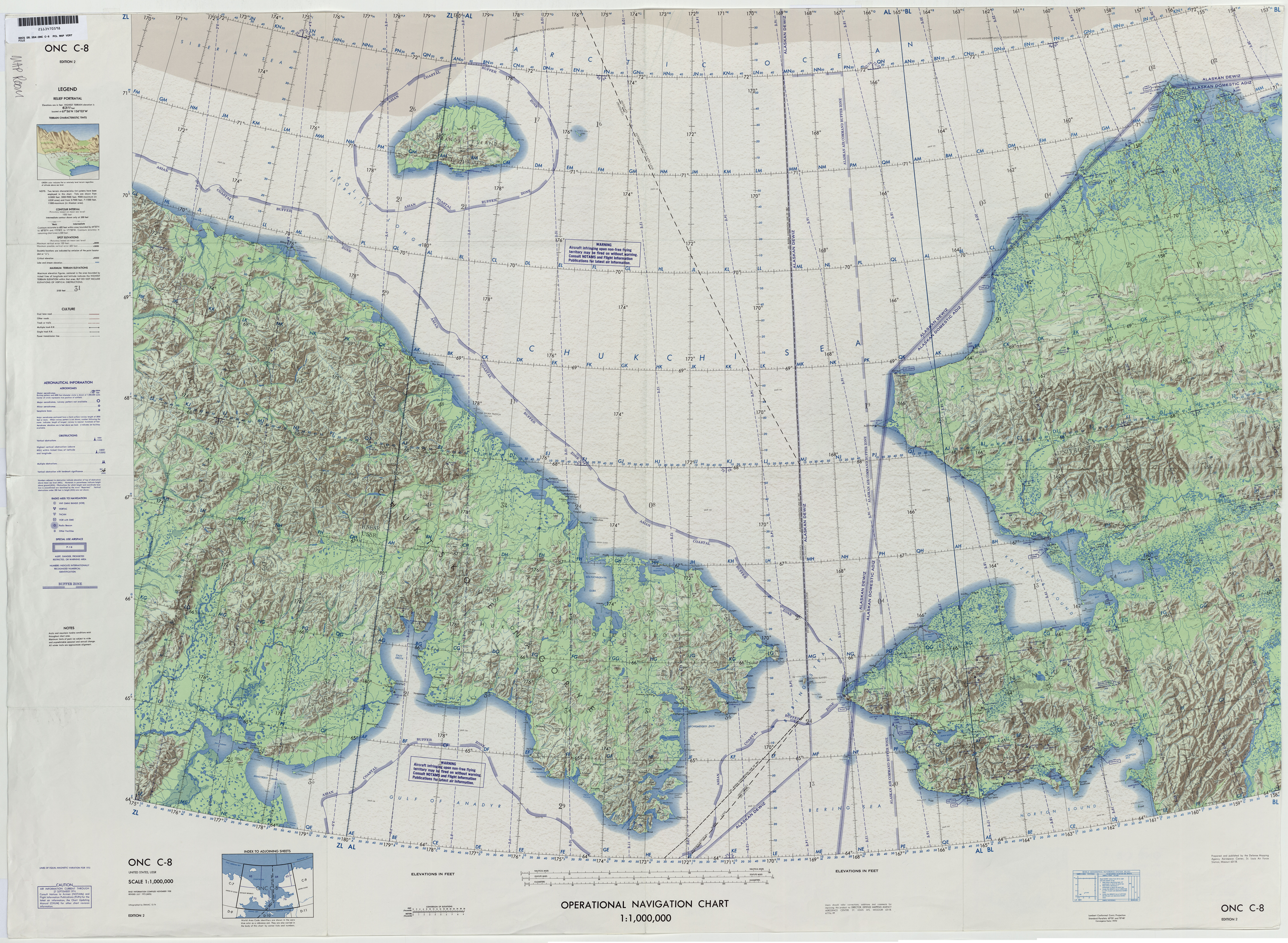 1:1,000,000 scale Operational Navigation Chart, Sheet C-8, 2nd edition. Covers United States, U.S.S.R. Lambert Conformal Conic Projection. Standard Parallels 65 20N and 70 40N. Center longitude 171 30W.